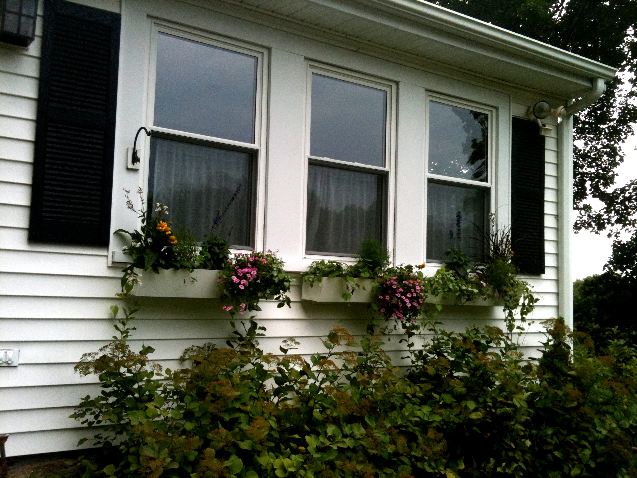 Window boxes. They're made out of Koma pvc lumber with stainless steel screws so they should last a long time. They're based on a design we saw in a Walpole Woodworkers' catalog.